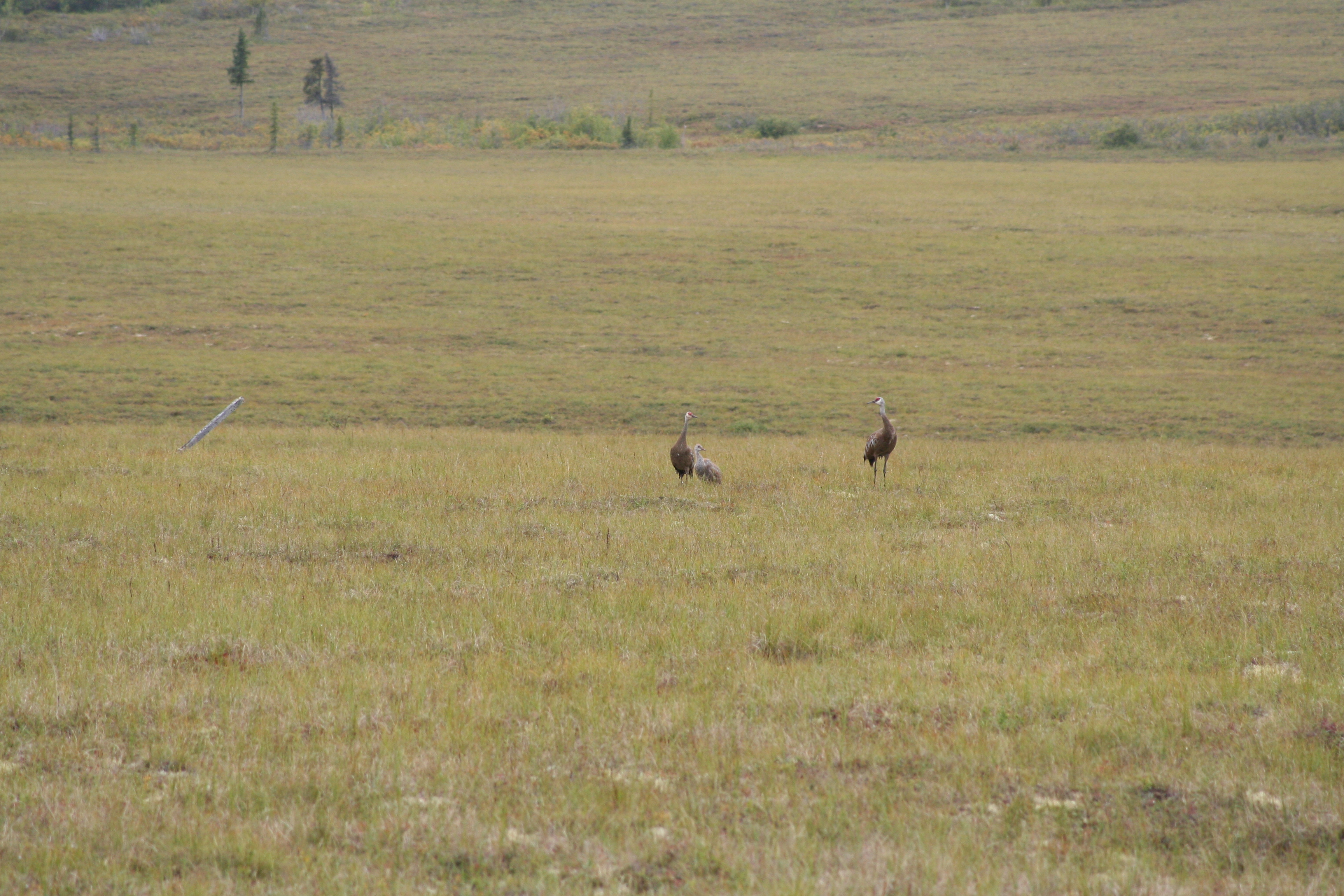 Two adult & one juvenile Sand hill cranes, Marshall, Alaska